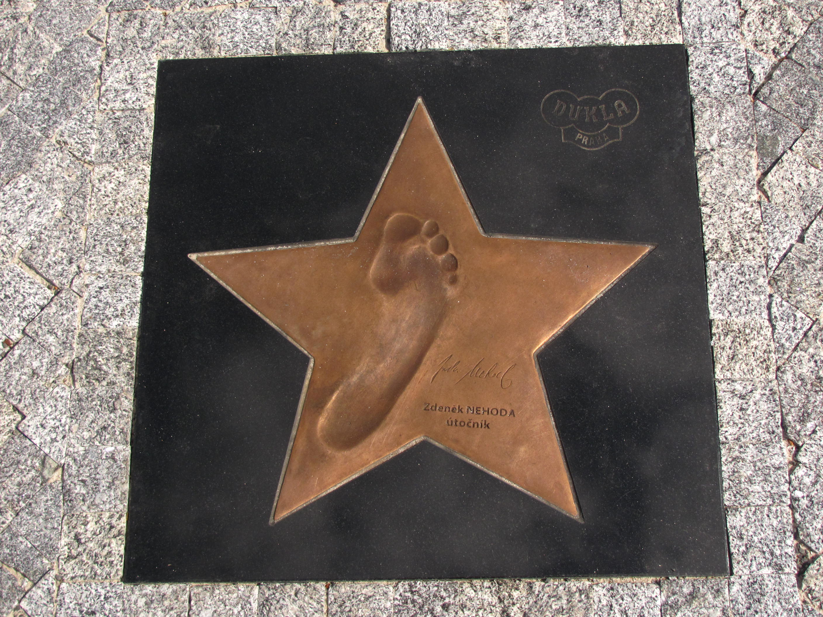 Zdeněk Nehoda, Czech football player (forward) – Star of Fame in Juliska Park near football stadium of Dukla Praha in Prague 6 - Dejvice.